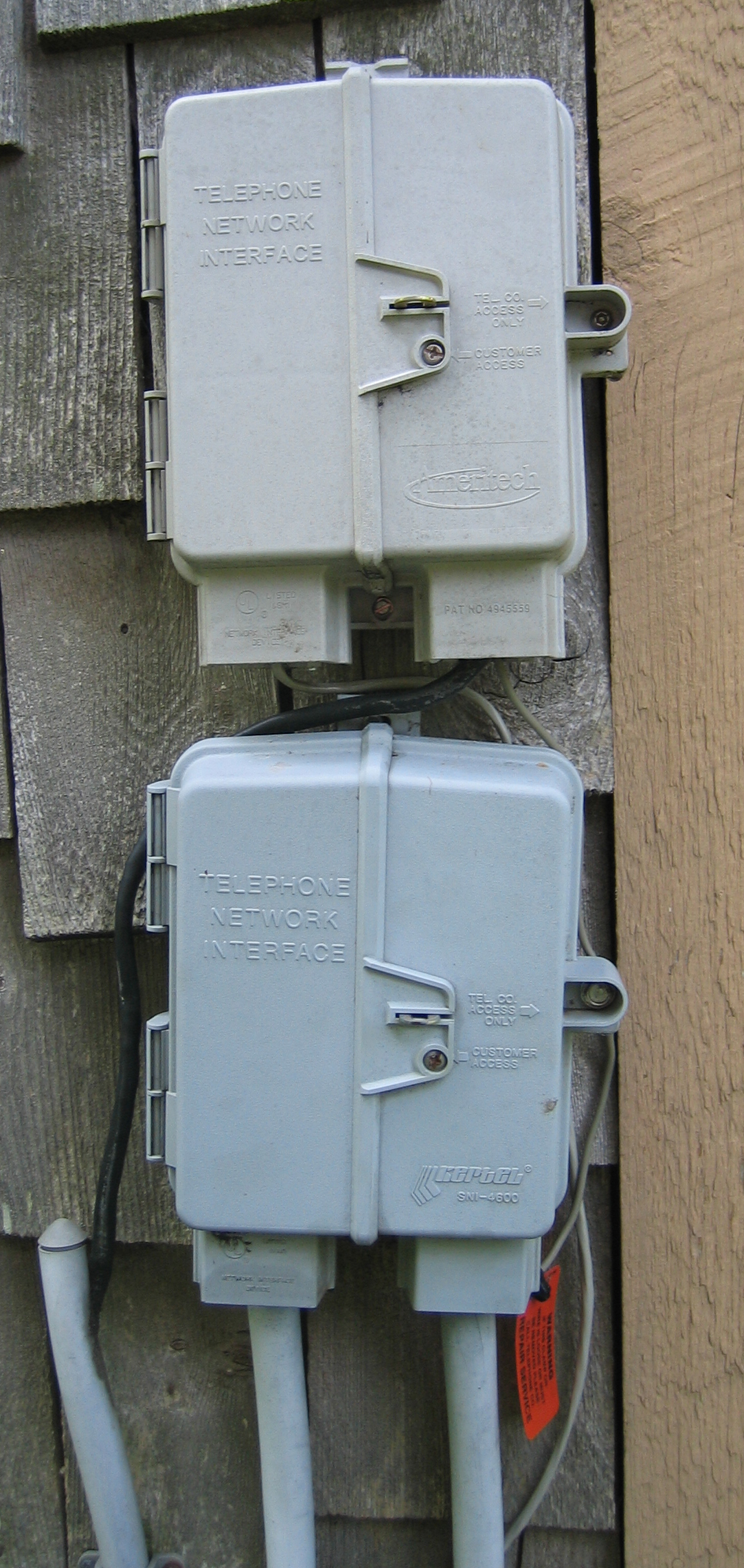 This is a photograph of the TNID/Telephone Network Interface Device boxes at my home business. It houses 12 incoming telephone lines.